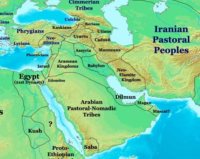 Ancient Near East in 1000 BC.